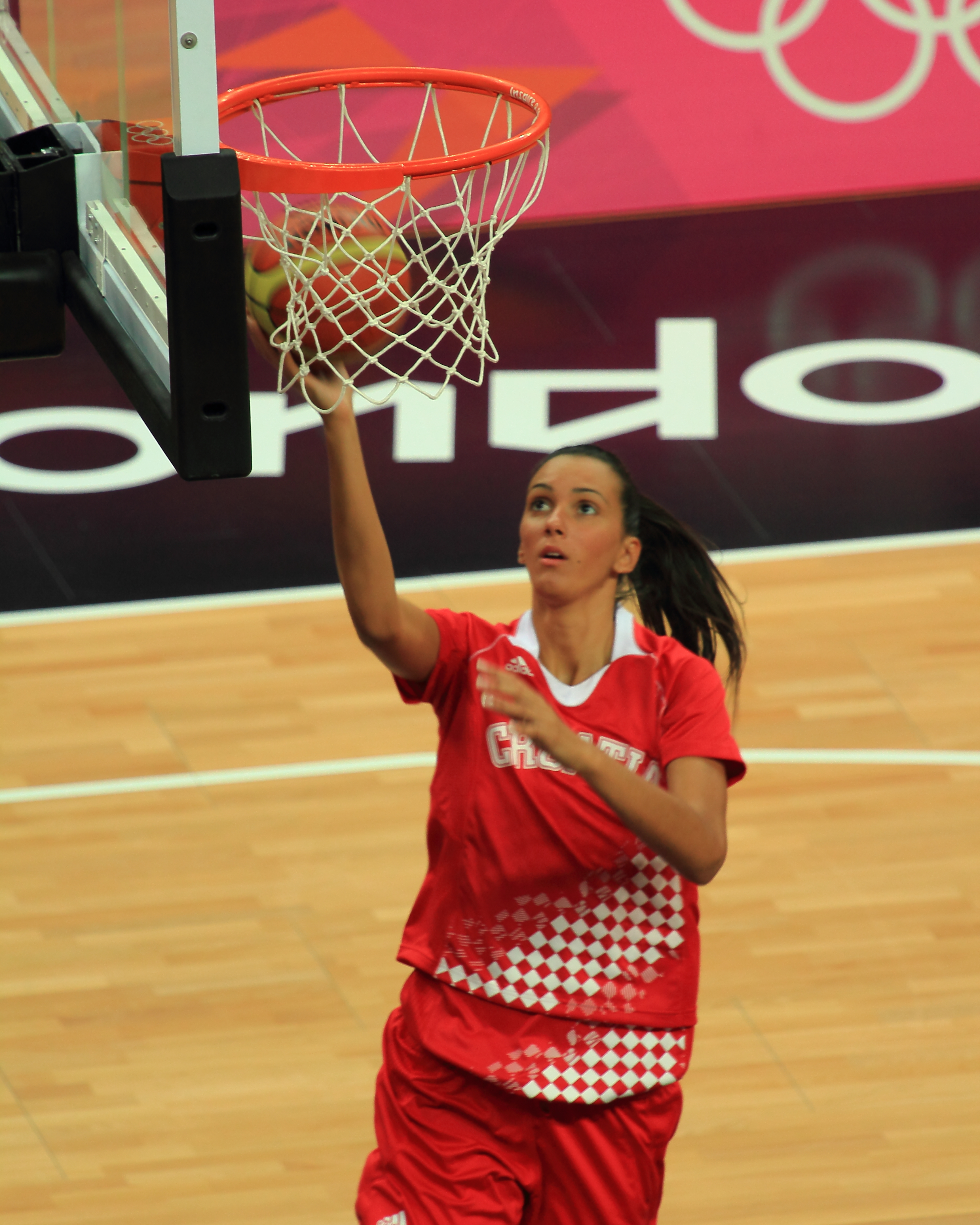 Croatian player Marija Vrsaljko practicing her skills before their game with Angola at the London 2012 Olympic Games